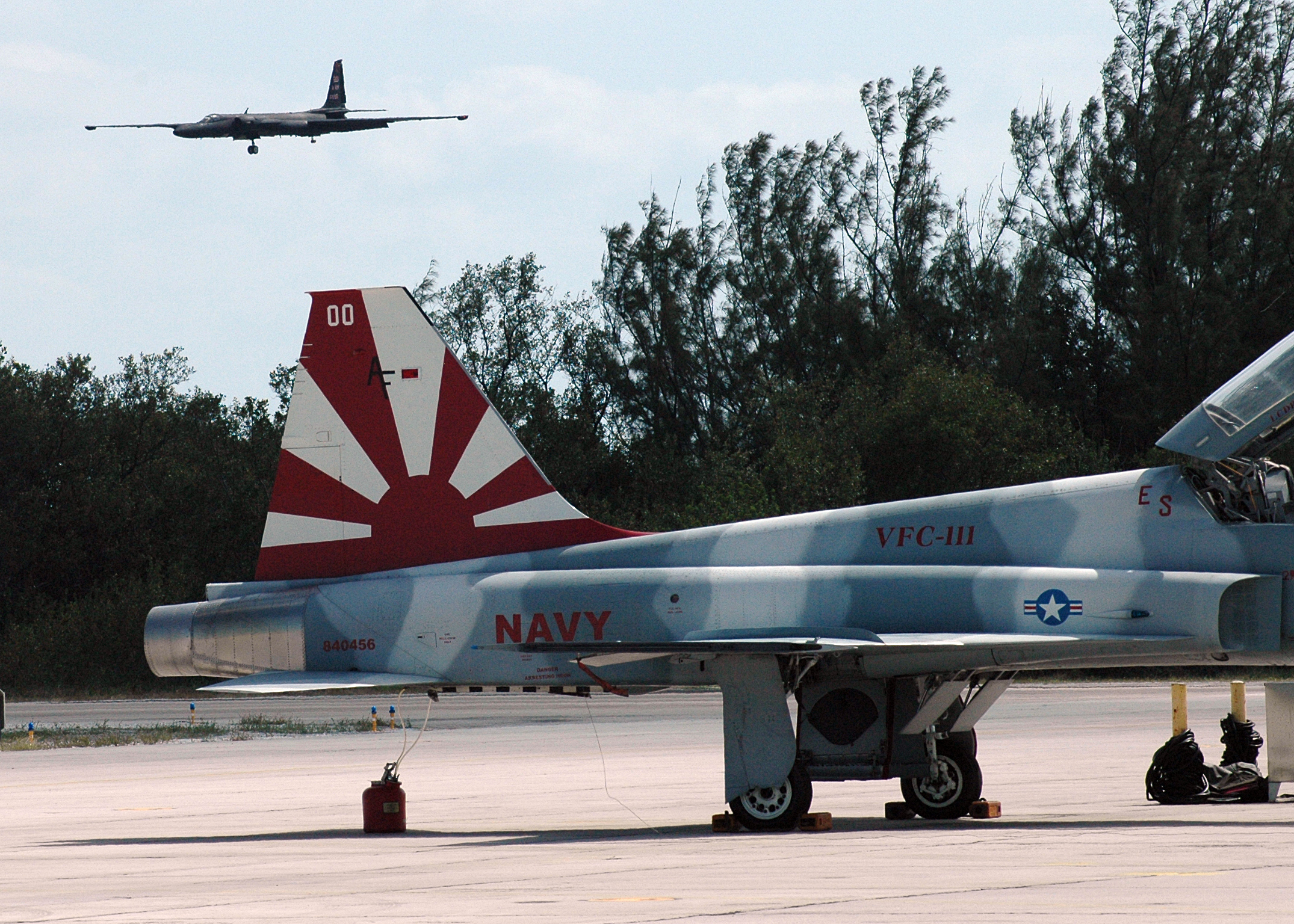 A U.S. Air Force Lockheed U-2S aircraft lands at Naval Air Station Key West, Florida (USA), on 1 May 2008, on the 48th anniversary of the downing of a U-2 flown by retired U.S. Air Force Capt. Gary Powers over the Soviet Union. Visible in the foreground is a U.S. Navy Northrop F-5F Tiger II (USAF s/n 84-0456) from composite fighter squadron VFC-111 Sundowners, an adversary squadron based at NAS Key West.